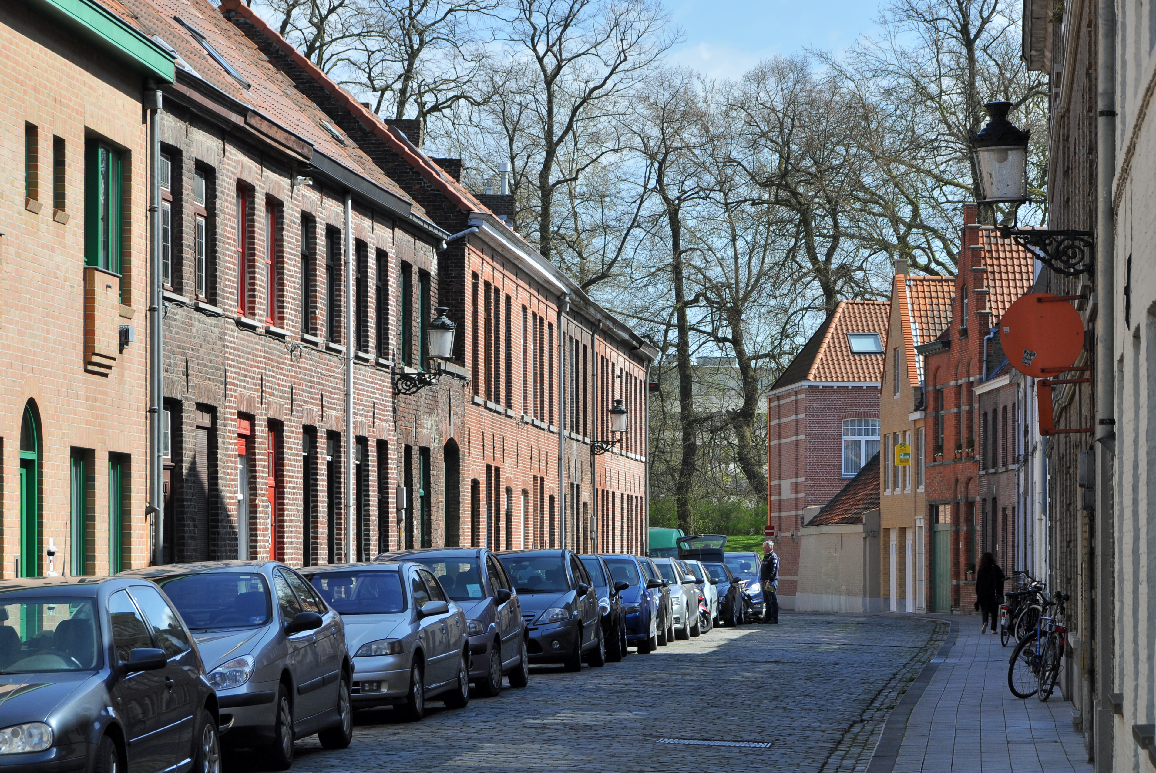 Bruges (Belgium): Boudewijn Ravestraat